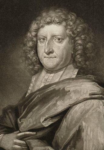 Sybrand (Sybrant) van Noordt (The Younger), from engraving by Peter Schenck, 1702